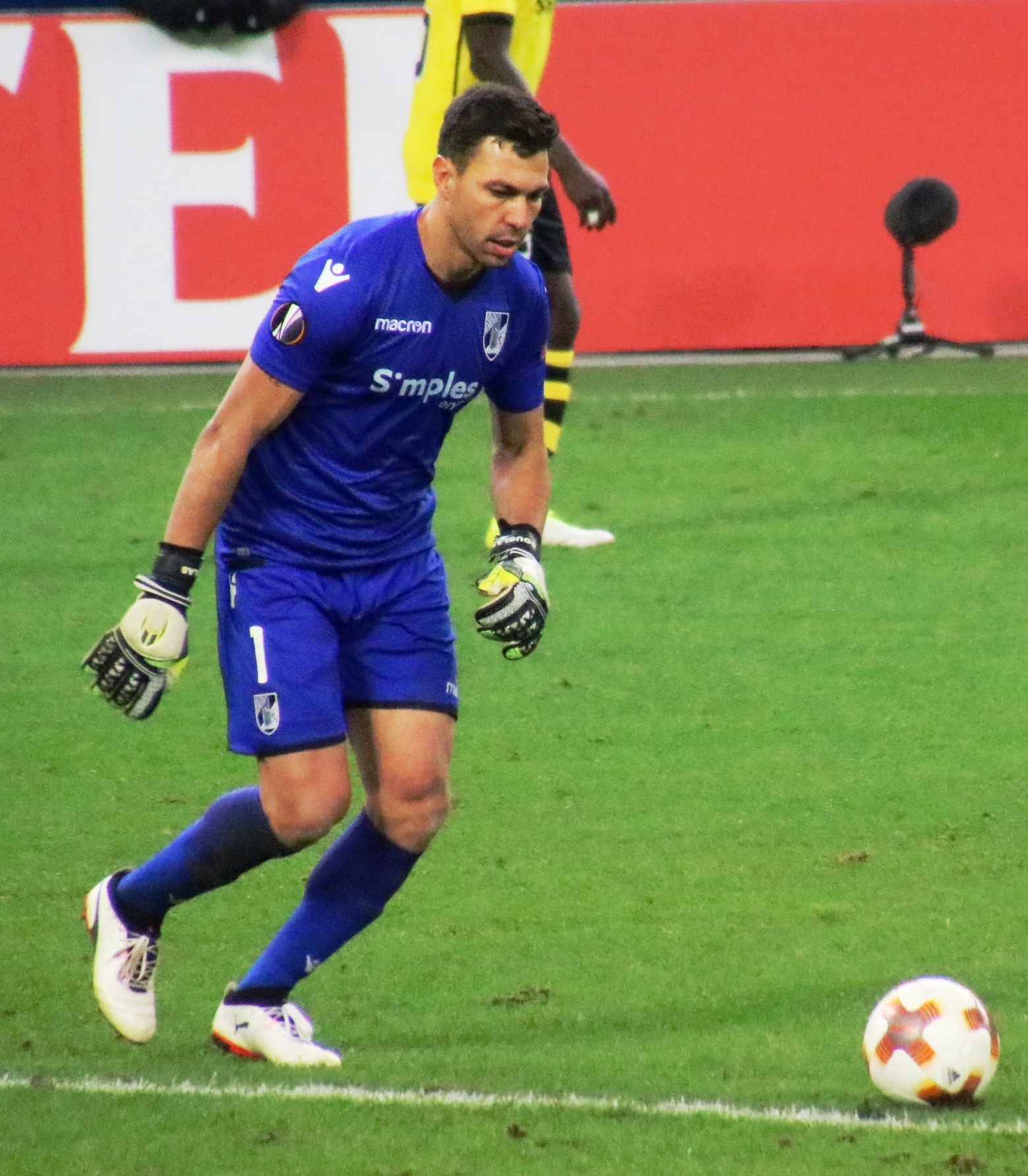 group stage round 5 Euroleague